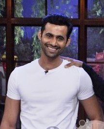 Promotion of 'Holiday' on the sets of Comedy Nights with Kapil